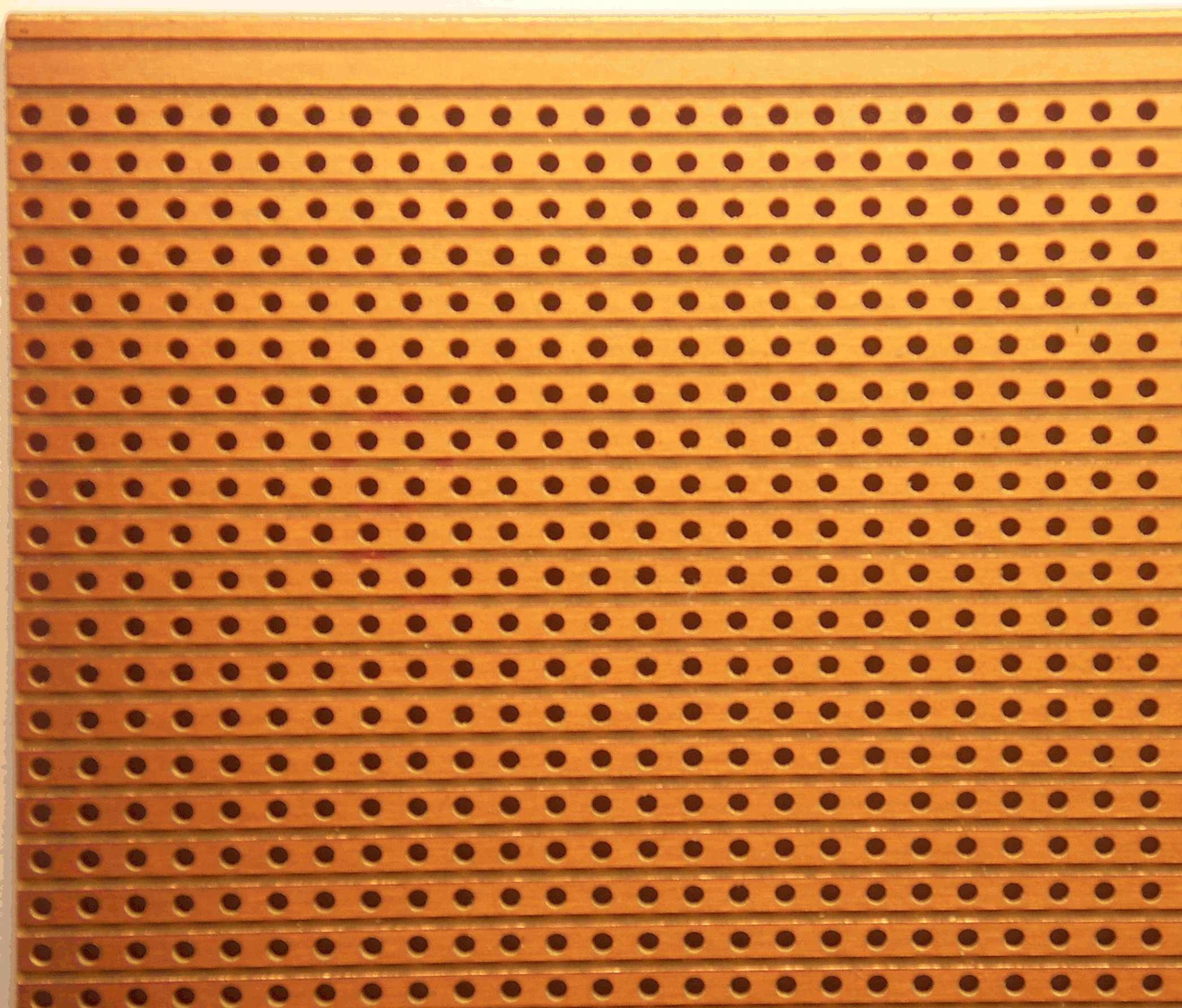 Piece of unused Stripboard